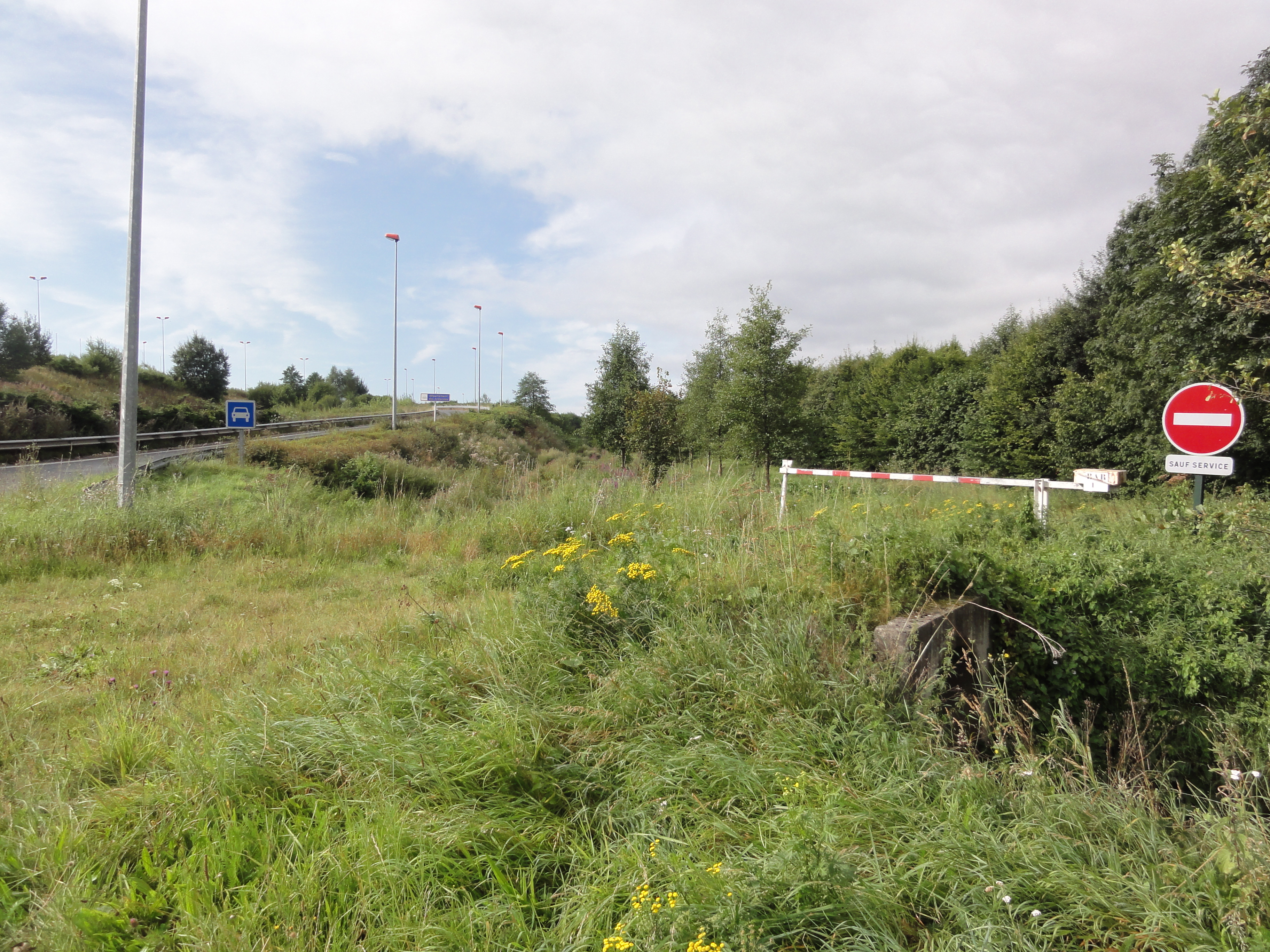 Gué-d'Hossus (Ardennes) frontière fr-be, début de l'autoroute A304